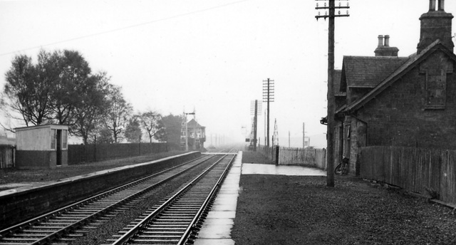 Blackford Station. View eastward, towards Perth; ex-Caledonian Glasgow - Perth main line. Station closed 11/6/56 (goods 11/9/67). Station well-preserved after closure for 5 years. (Note lifting-barriers already provided for crossing of main A9 road).